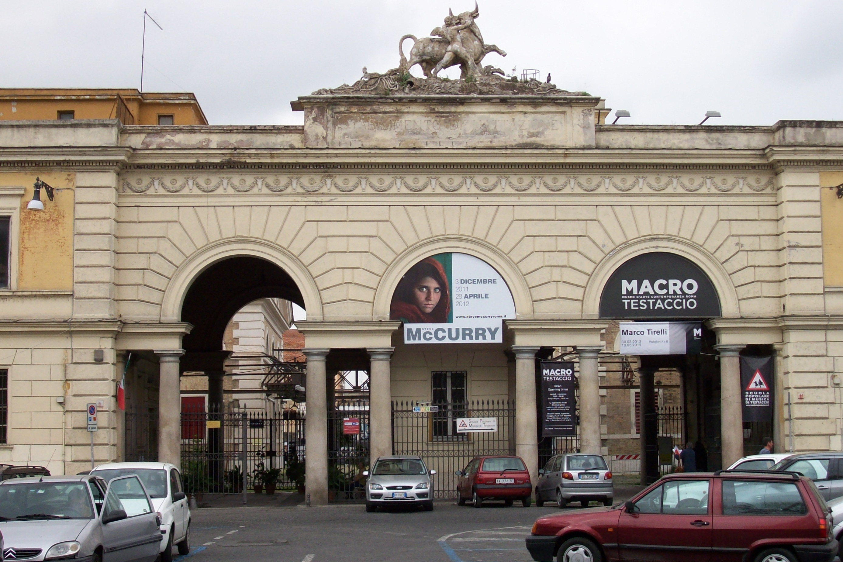 The former Testaccio Slaugherhouse, now Museum of Contemporary Art of Rome (MACRO) during an exposition of Steve McCurry's photographs